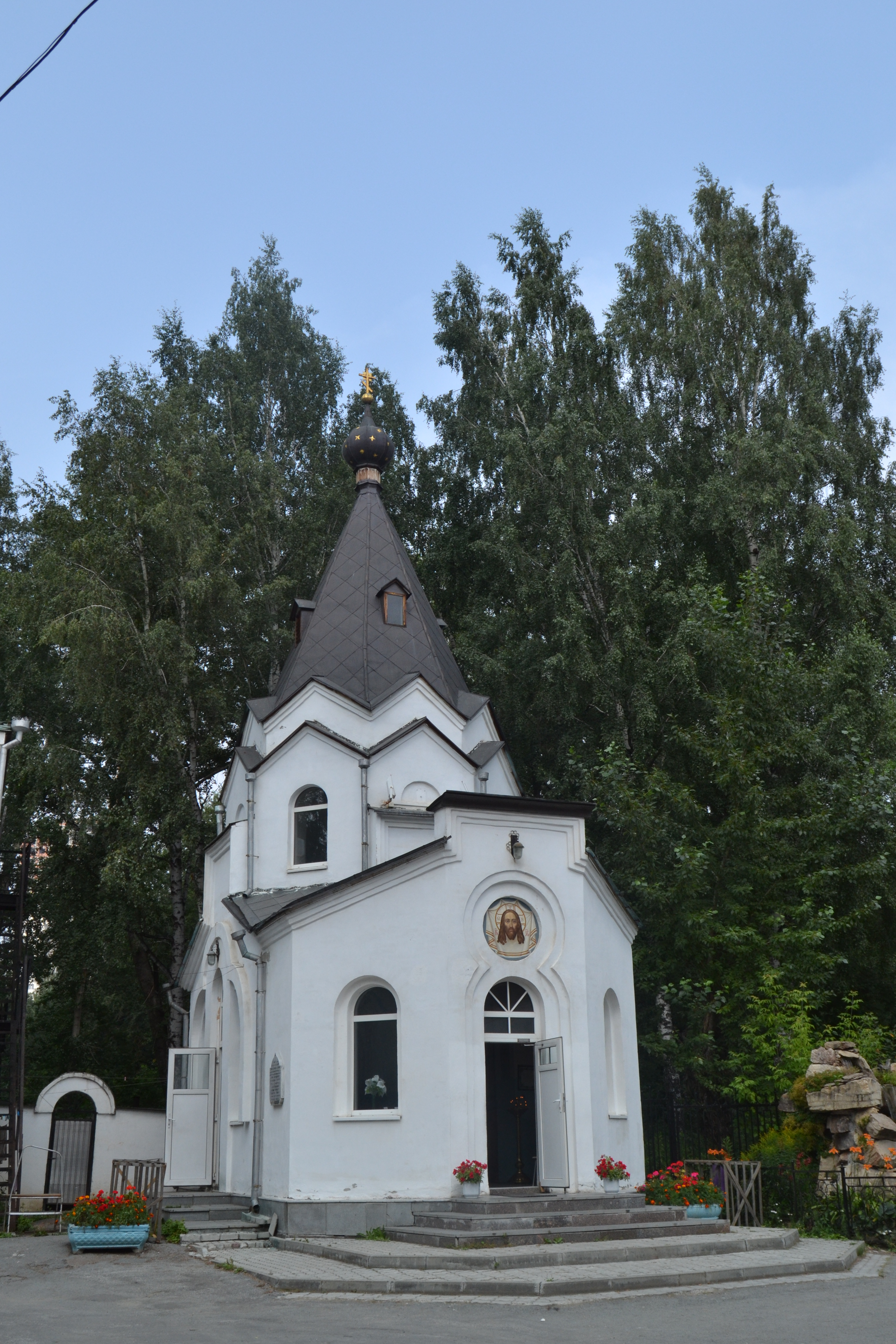 Chapel of Guria, Samon and Habib at Michael Cemetery in Yekaterinburg at the Church of All Saints